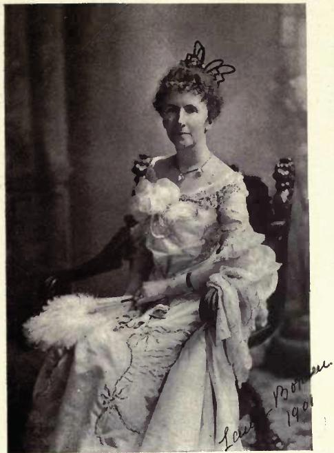 Mrs. Borden (Laura Bond). "From a photograph by Topley, Ottawa".